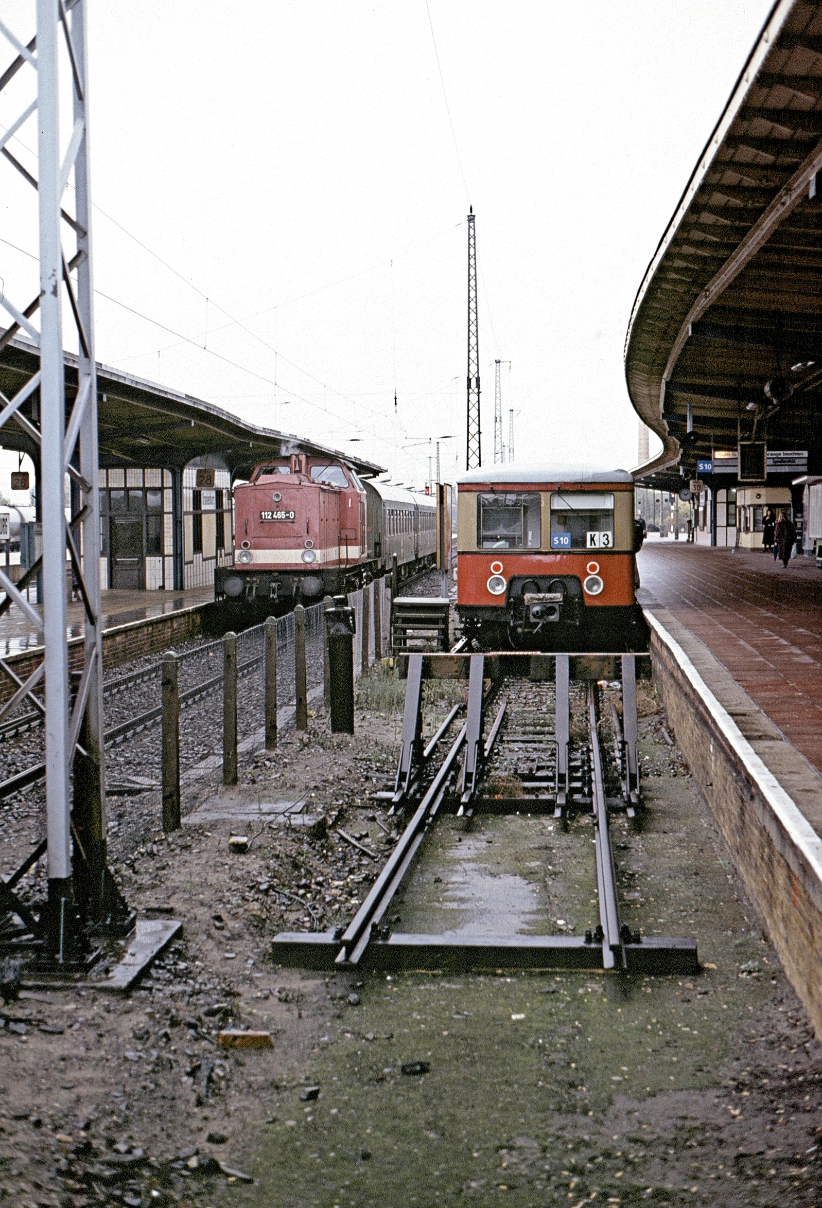 Oranienburg train station